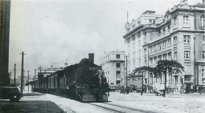 Photo of a steam train passing in front of the Oriental Hotel, Kobe